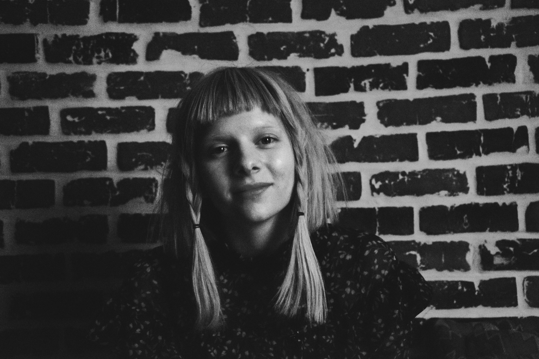 This photo was taken at Badaboum (concert venue), in Paris, France, on march 1rst, 2018 by Maeva Damas // AURORA France.